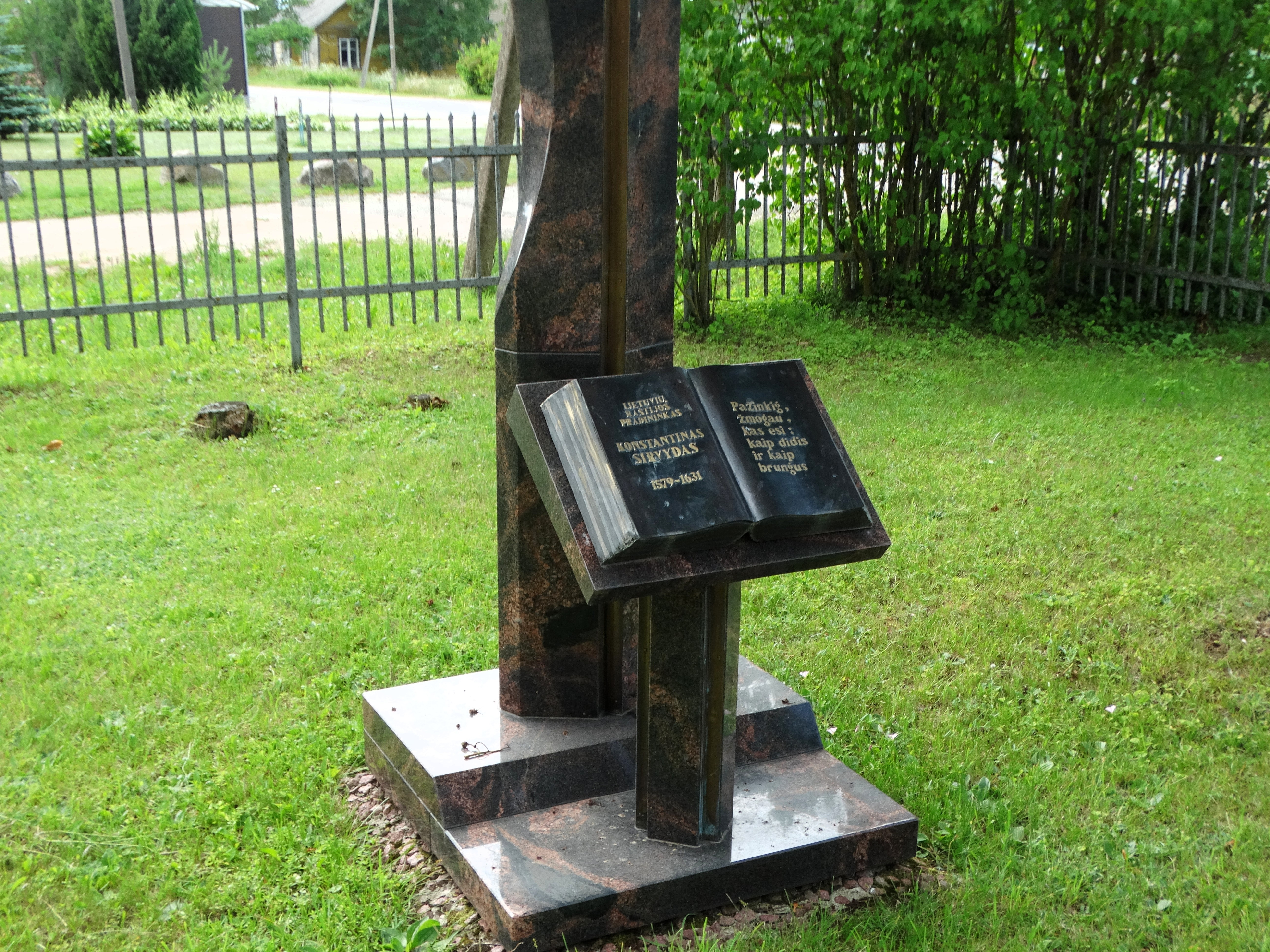 In memory of Konstantinas Sirvydas, Dabužiai, churchyard, Anykščiai District, Lithuania